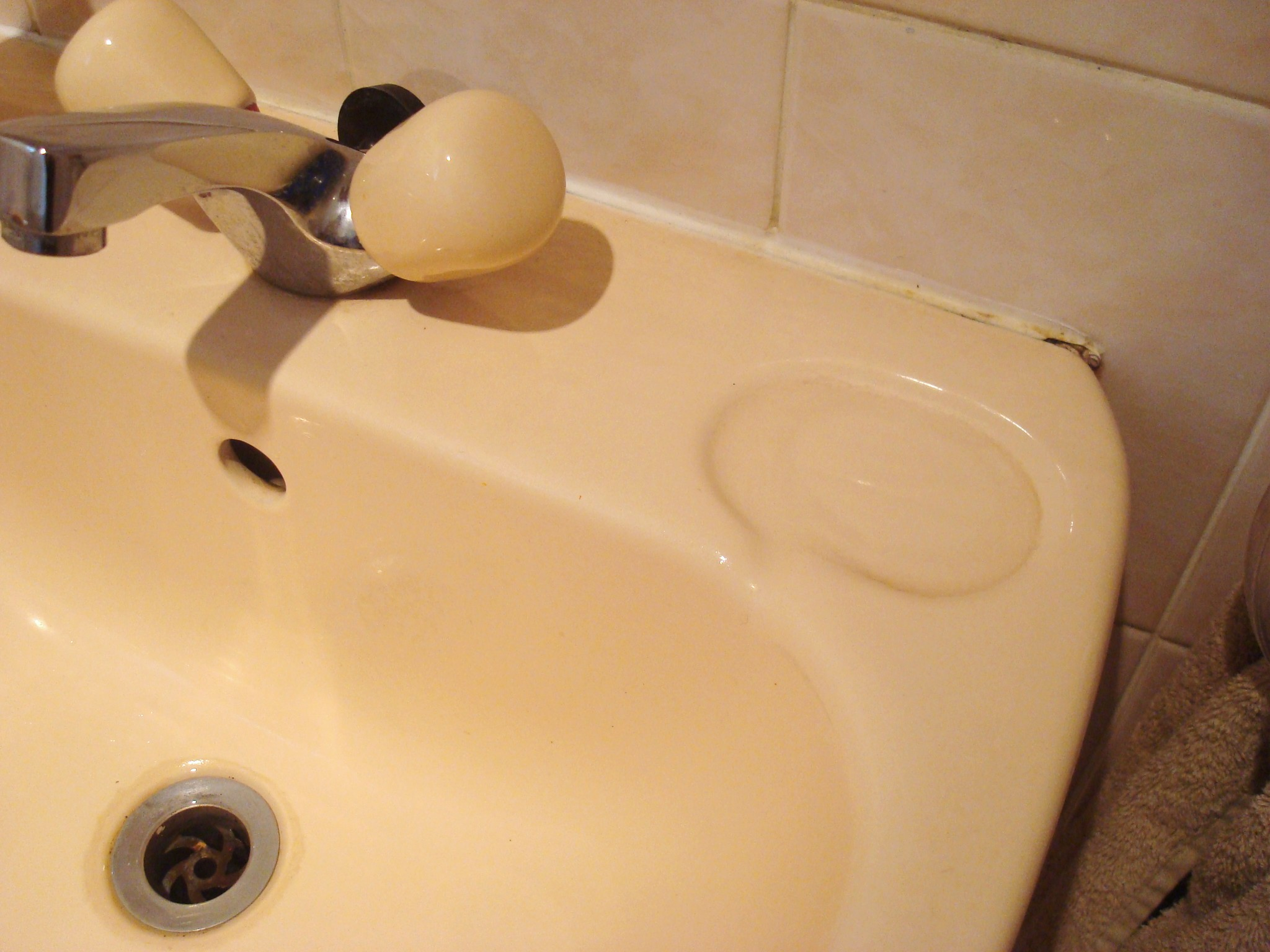 A washbasin with its own soap dish, consisting of a soap-bar-sized indentation to the right of the taps.